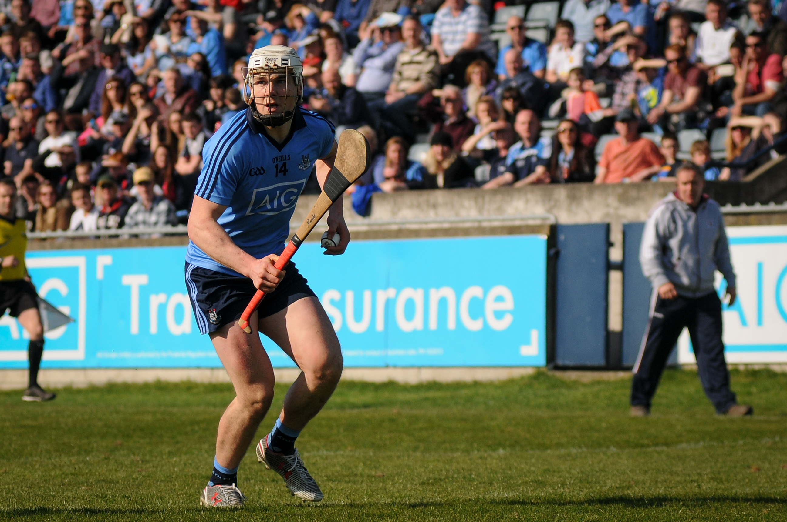 Liam Rushe playing for Dublin against Galway in the 2015 National Hurling League at Parnell Park